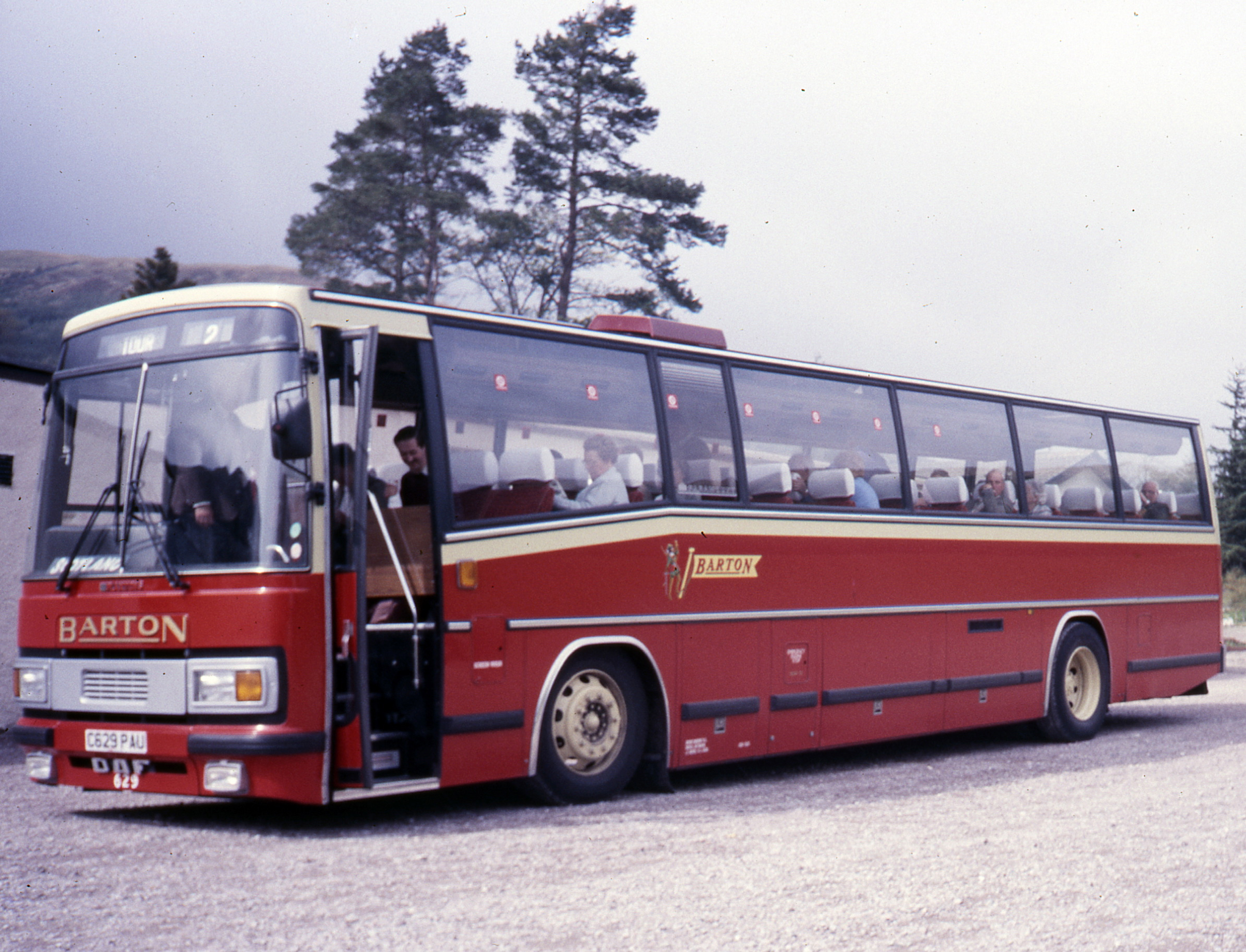 Barton Transport 629 (C629 PAU), a DAF MB230 with Plaxton Paramount II bodywork, on a tour to Oban and western Scotland in May 1987.